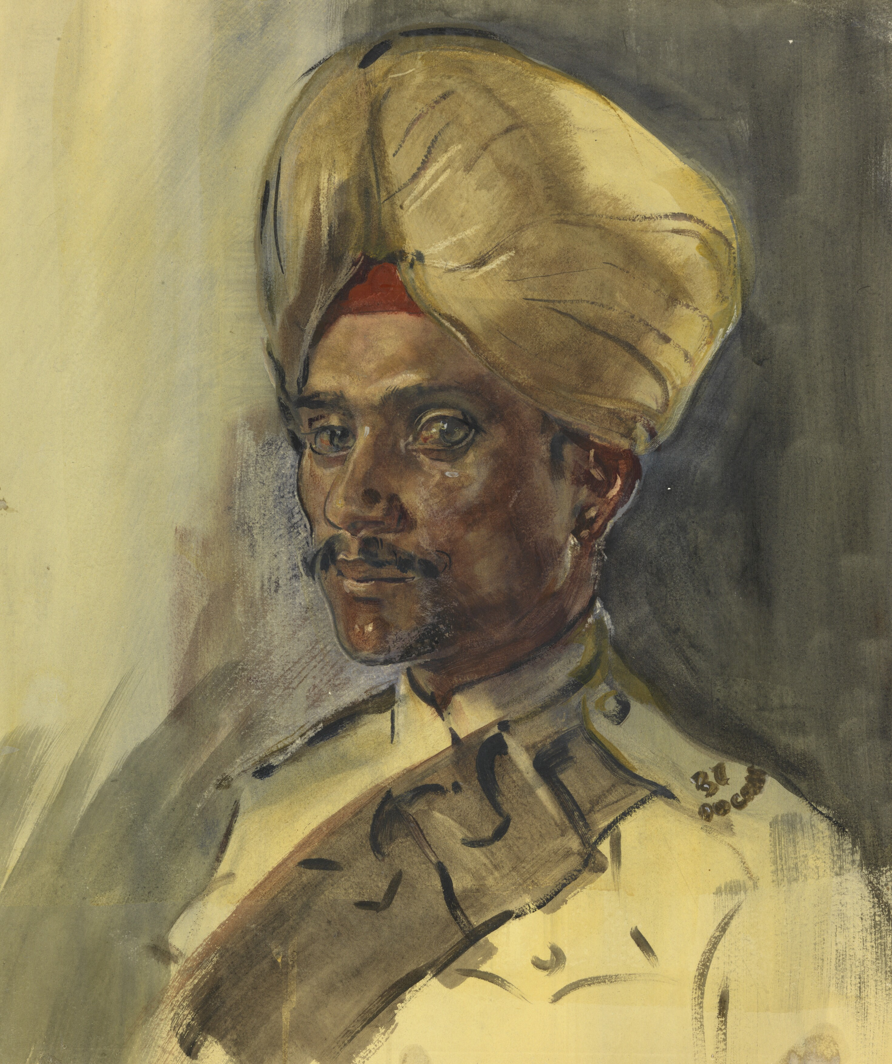 Sepoy, 37th Dogras image: a head and shoulders portrait of a Sepoy of the 37th Dogras of the Indian Army. He wears a turban and full uniform, with a leather ammunition belt across his chest, and has a neat moustache.